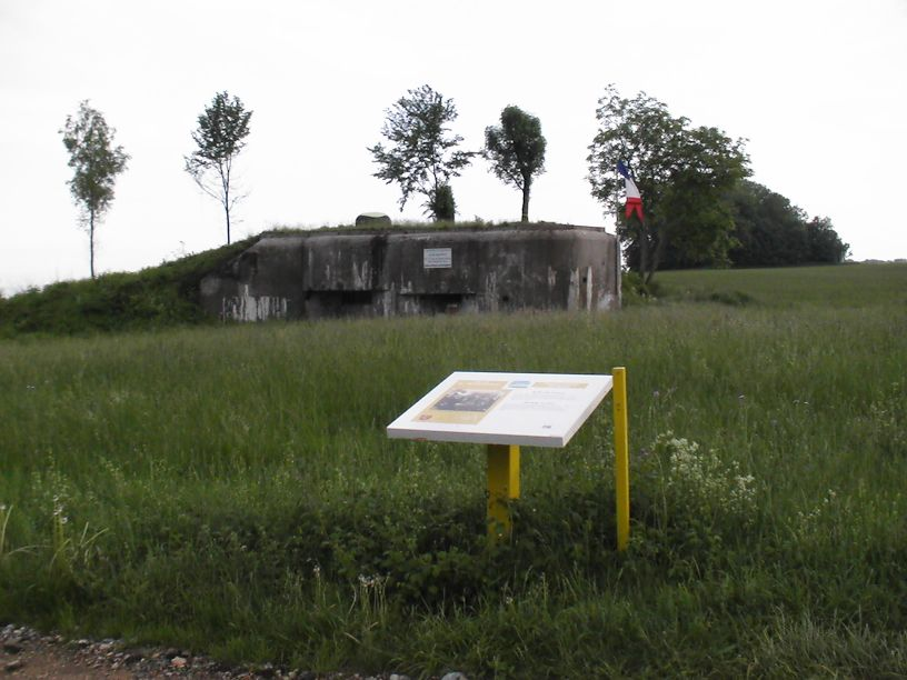 Casemate n°87 des Vernes (From Magstatt-le-Bas Maginot Line)